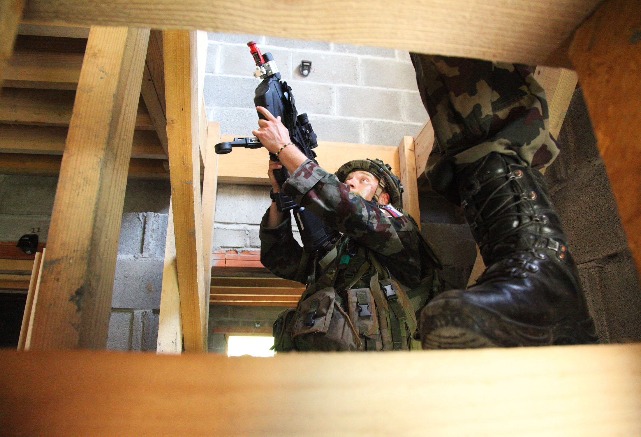 Soldiers from the 74th Motorized Battalion in the Slovenian Army maneuver up a flight of stairs as they attempt to apprehend the opposing force as part of a deliberate attack exercise during the Immediate Response 2012 (IR12) training event held in Slunj, Croatia on Wednesday, May 30, 2012. IR12 is a multinational tactical field training exercise that will involve more than 700 personnel primarily from the U.S. Army Europe’s 2nd Calvary Regiment and Croatian armed forces, with contingents from Albania, Bosnia-Herzegovina, Montenegro and Slovenia. Macedonia and Serbia will send observers to the exercise. The exercise is a part of USEUCOM's joint training and exercise program designed to enhance joint and combined interoperability between the U.S. Army, U.S. Air Force, Croatian Armed Forces and partner nations, and will help prepare participants to operate successfully in a joint, multinational, interagency, integrated environment. (U.S. Army photo by SPC Lorenzo Ware/Released)